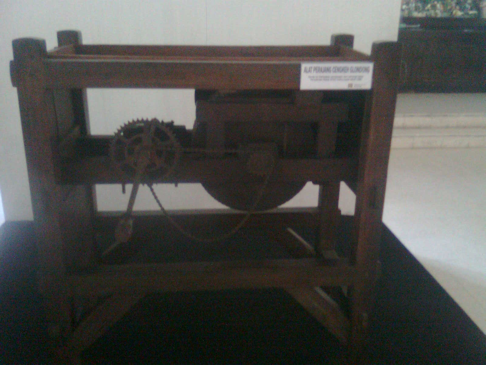 Chopping tool for cloves